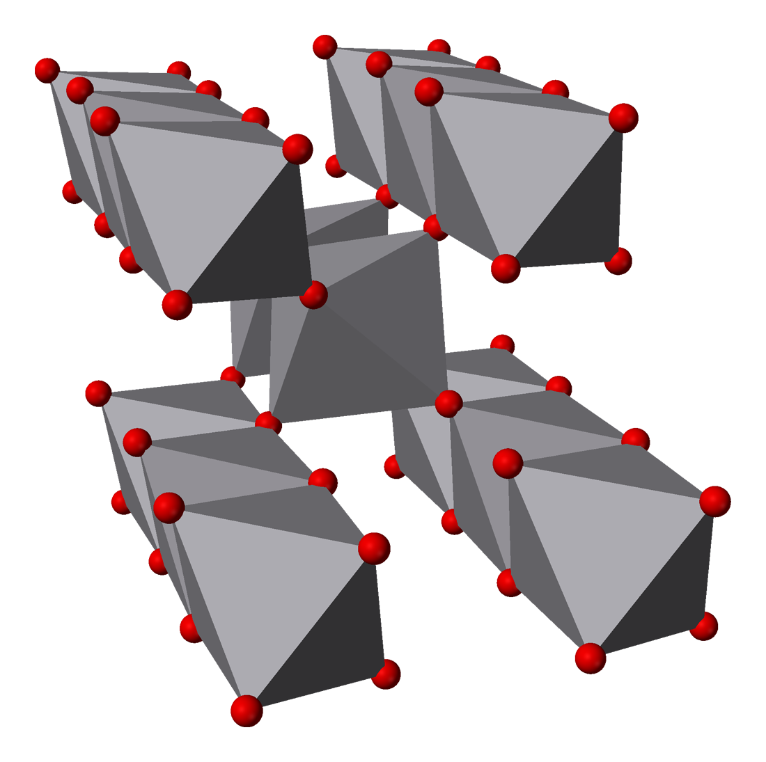 Polyhedral model of part of the crystal structure of vanadium(IV) oxide, VO2